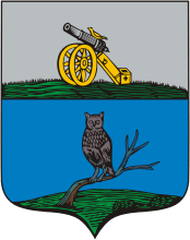 Sychyovka (Sychyovsk, Smolensk oblast), coat of arms (1780)